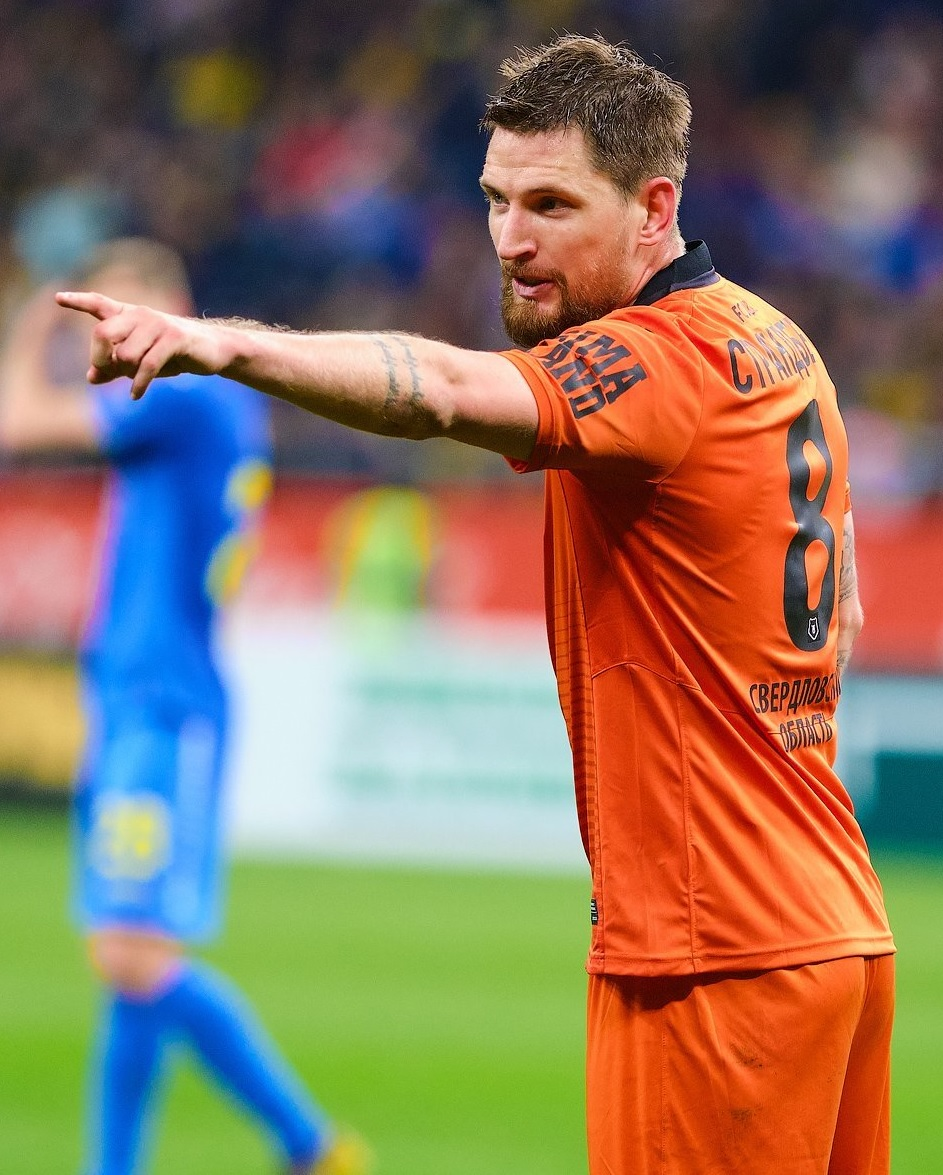 Stefan Strandberg with FC Ural Yekaterinburg in a game against FC Rostov.